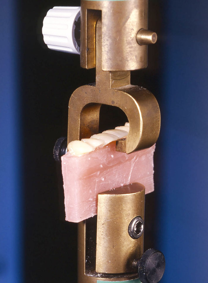 Testing of bonding strength of artificial teeth to a denture base material according to ISO 22112